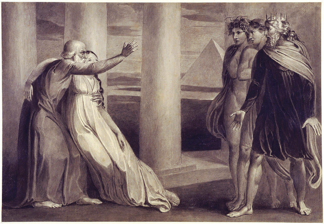 "Tiriel" Drawing No.1 by William Blake c1789 William Blake: Tiriel supporting Miratana. Drawing 1 (18.8 x 27.4 cm. wide, c1789) The text illustrated is: "The aged man raised up his right hand to the heavens[;] his left supported Myratana." (lines 19-20, plate 1). Three of his sons are opposite; the one crowned is Heuxos. The pyramid, the river and columns are not mentioned in the text, which instead describes a "beautiful palace".